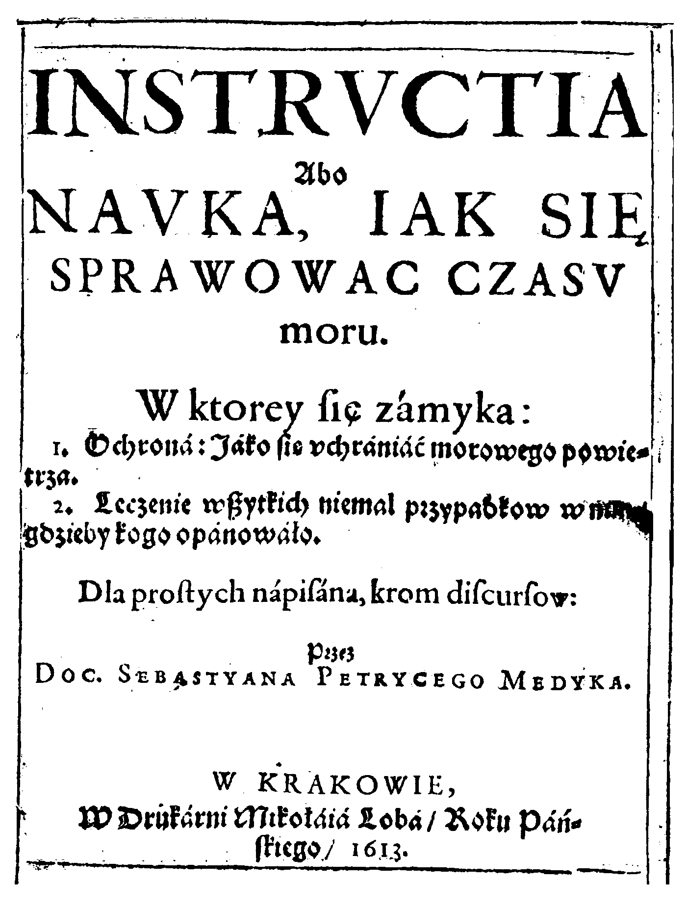 Sebastian Petrycy, "Instructia abo nauka, jak się sprawować czasu moru", Kraków 1613